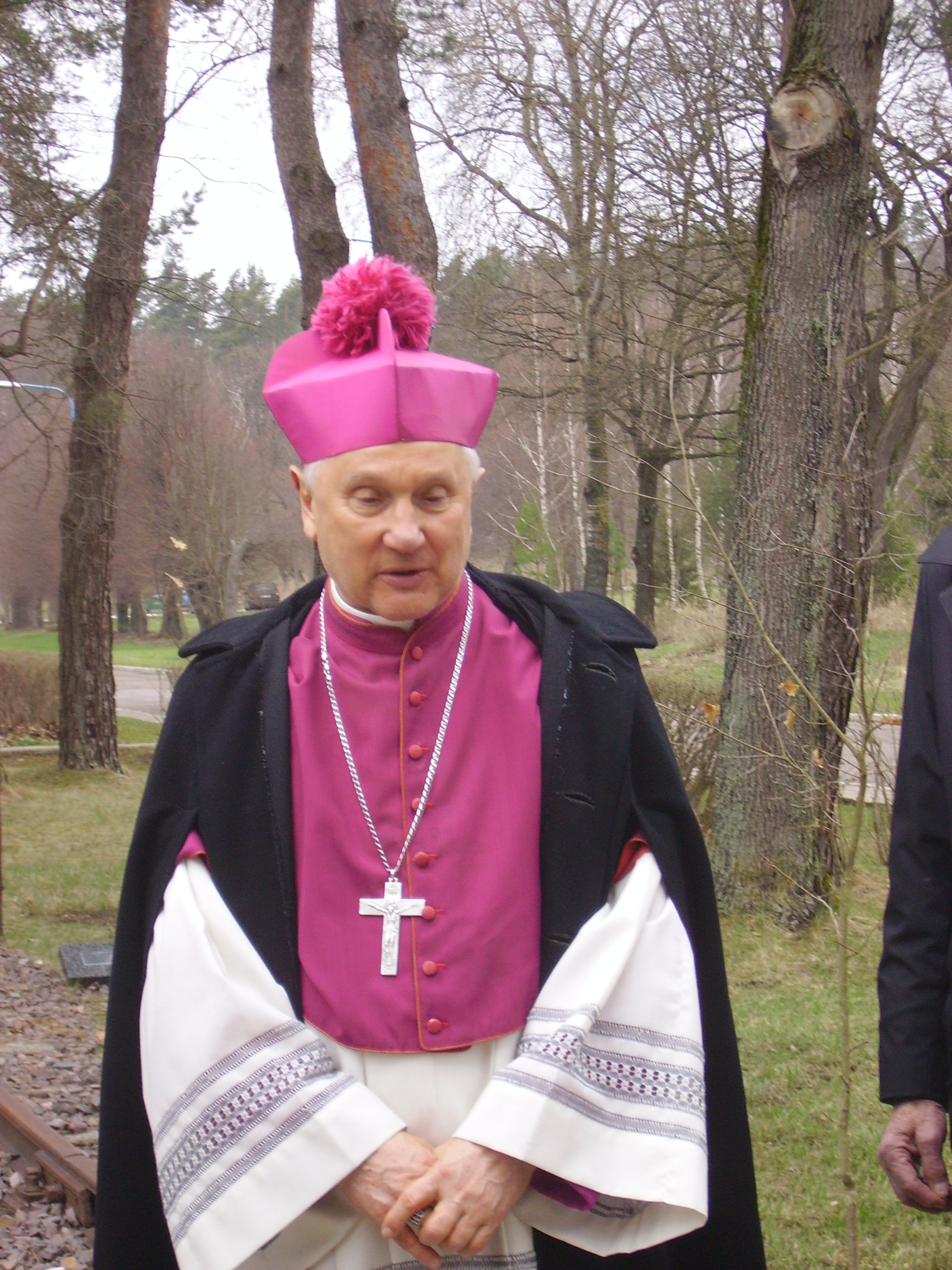 Edward Ozorowski. Pastoral Visit in Osowiec-Twierdza (2012), at the Monument of the victims of Katyn massacre.